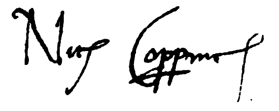 Nicolaus Coppernicus' signature in a book with works by Regiomontanus etc. he once owned. Now in Upsala.